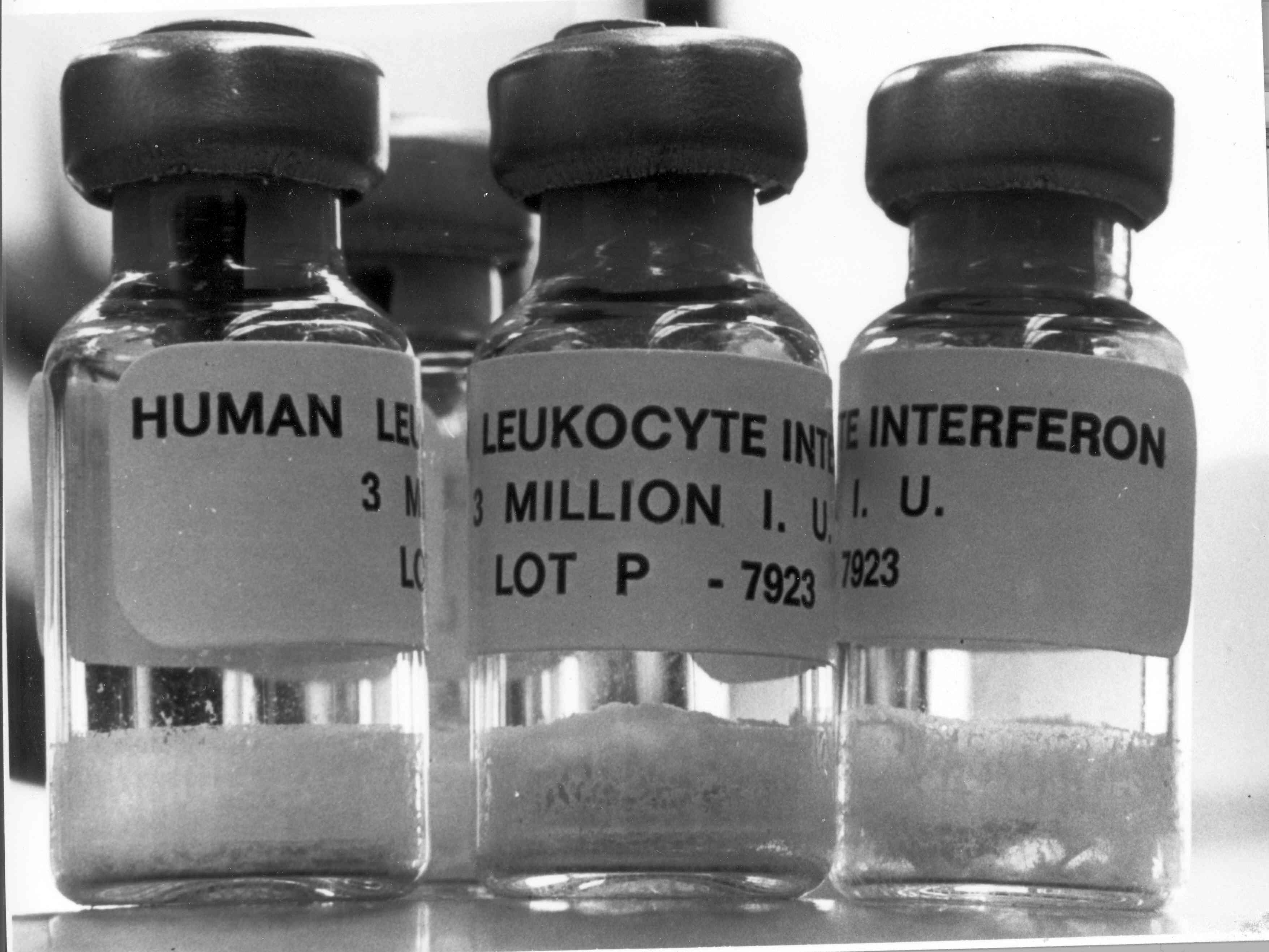 Title: Interferon Image ID: 3549 Photographer: Unknown Restrictions: Public Domain Image Date: 6/1/1982 [1]